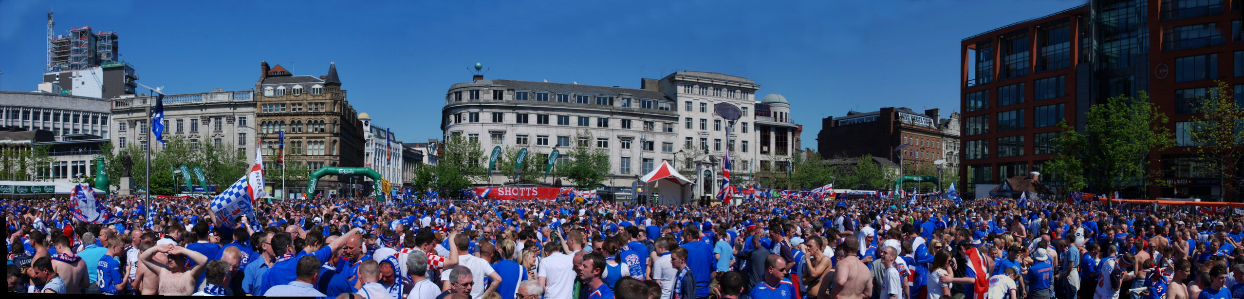 Picadilly Gardens Rangers Panorama